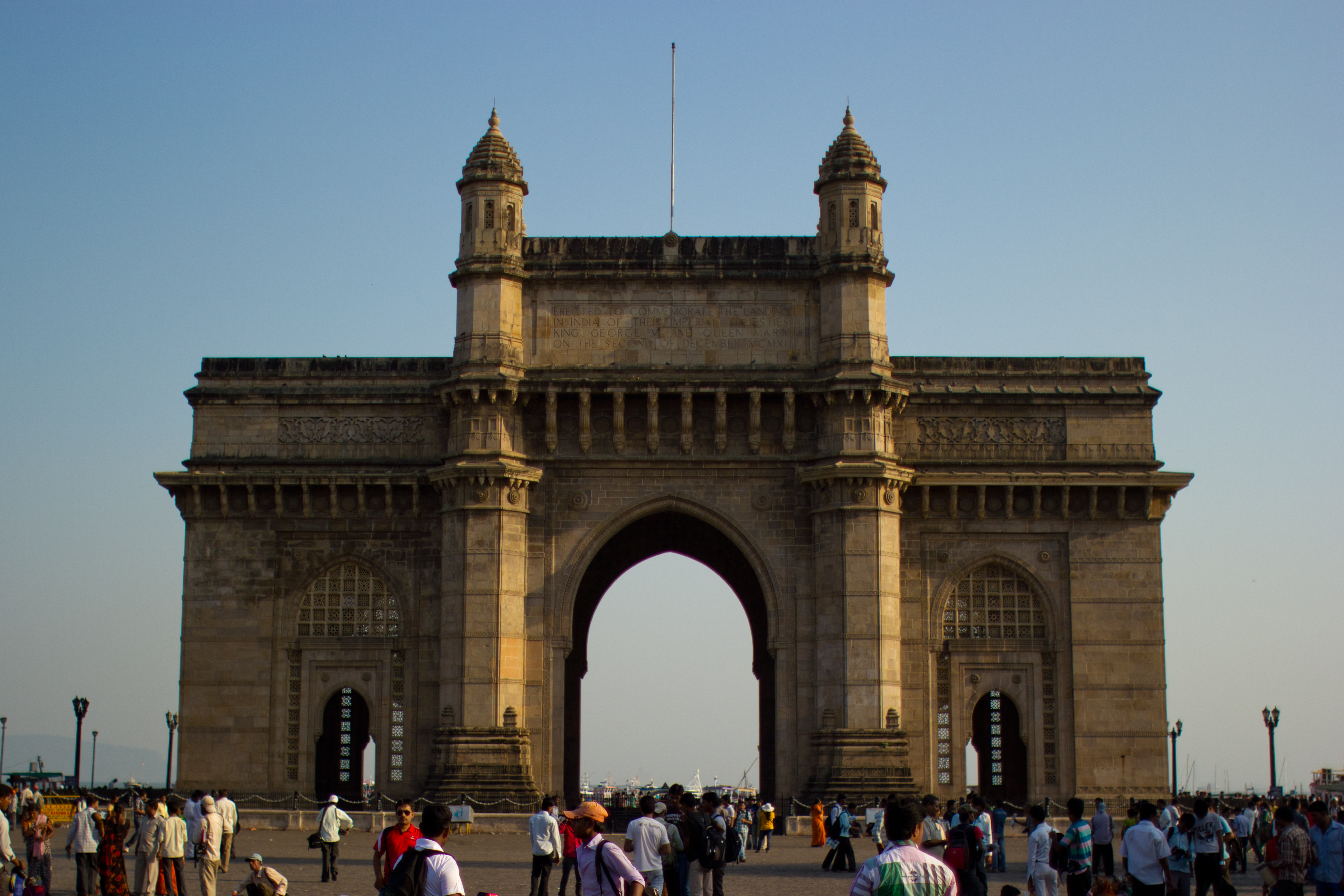 India Mumbai Victor Grigas